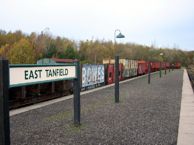 East Tanfield Station on the Tanfield Railway in County Durham